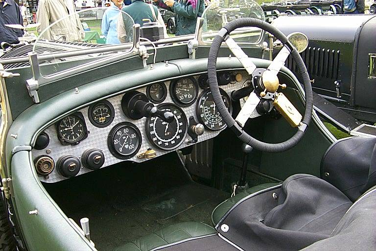 Dashboard of Bentley 4½-litre 1928 4-seater tourer body, original body a coupé by Victor Broom Chassis XR3332 Engine XR3337 Reg XV 7381 delivered December 1928